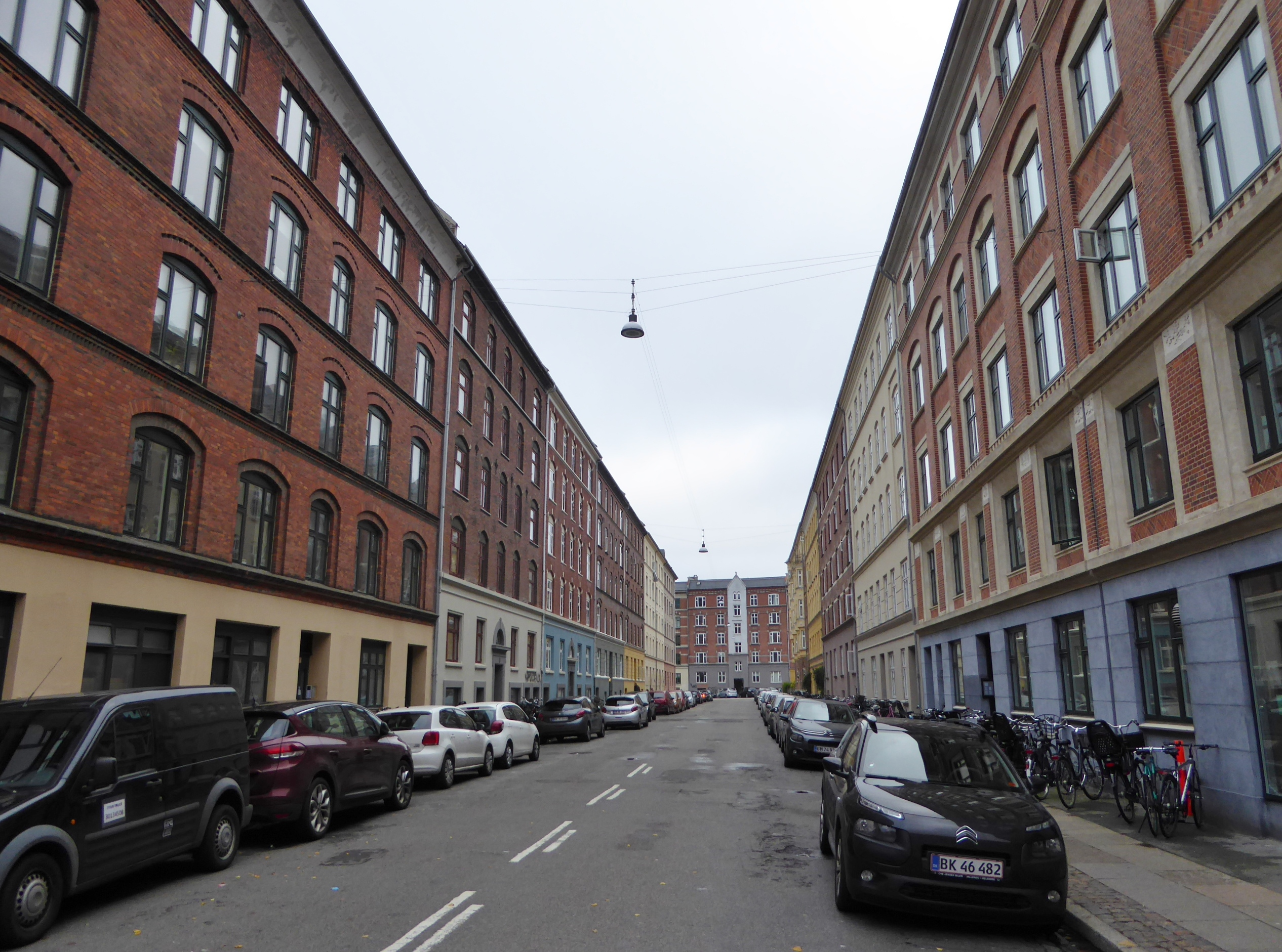 The street Frejasgade in Nørrebro in Copenhagen.